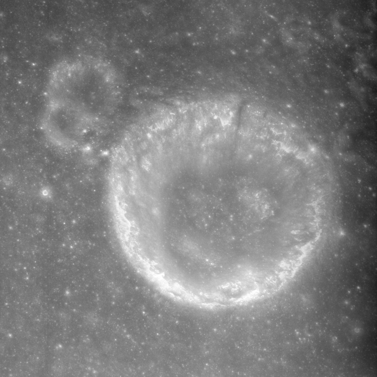 Somewhat oblique view of Lindbergh crater, facing south, on the moon. Taken by Apollo 16 panoramic camera.